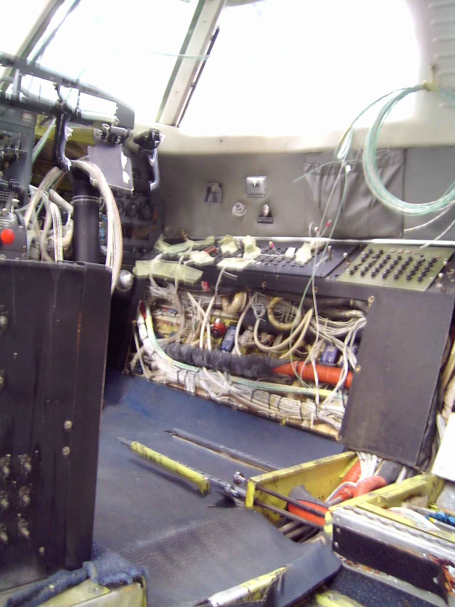 Cabina del Fairchild Swearingen Metroliner propietat de TopFly (